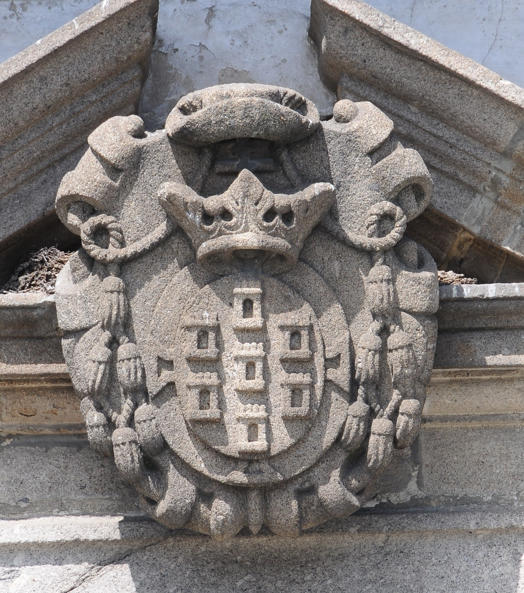 Decoration in Edifício do Recolhimento de Santa Maria Madalena ou das Convertidas, in Braga, Portugal